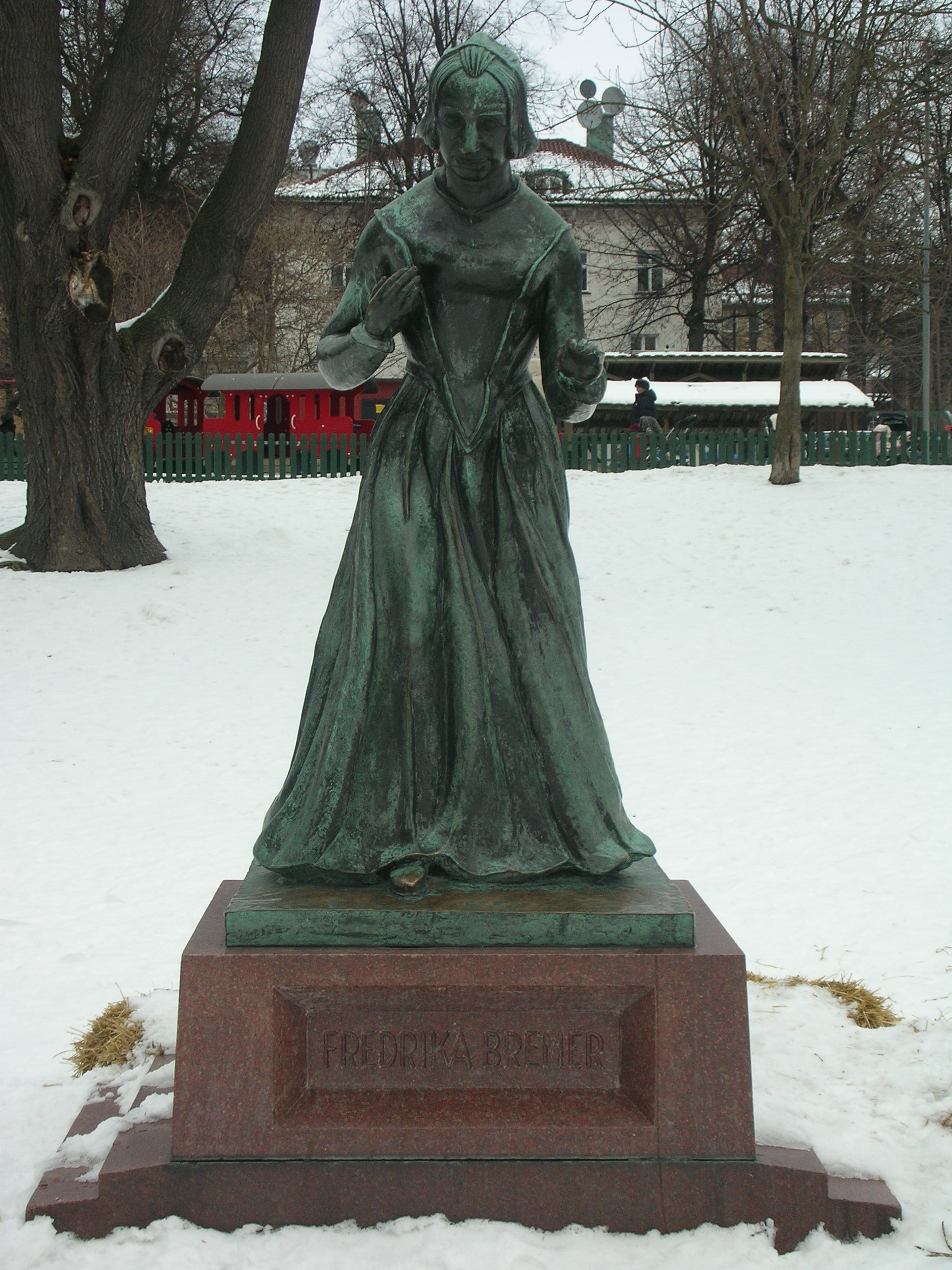 Statue depicting Fredrika Bremer (1801-1865) in Humlegården in Stockholm, by Sigrid Fridman (1879-1963). The statue was unveiled 2 June 1927.